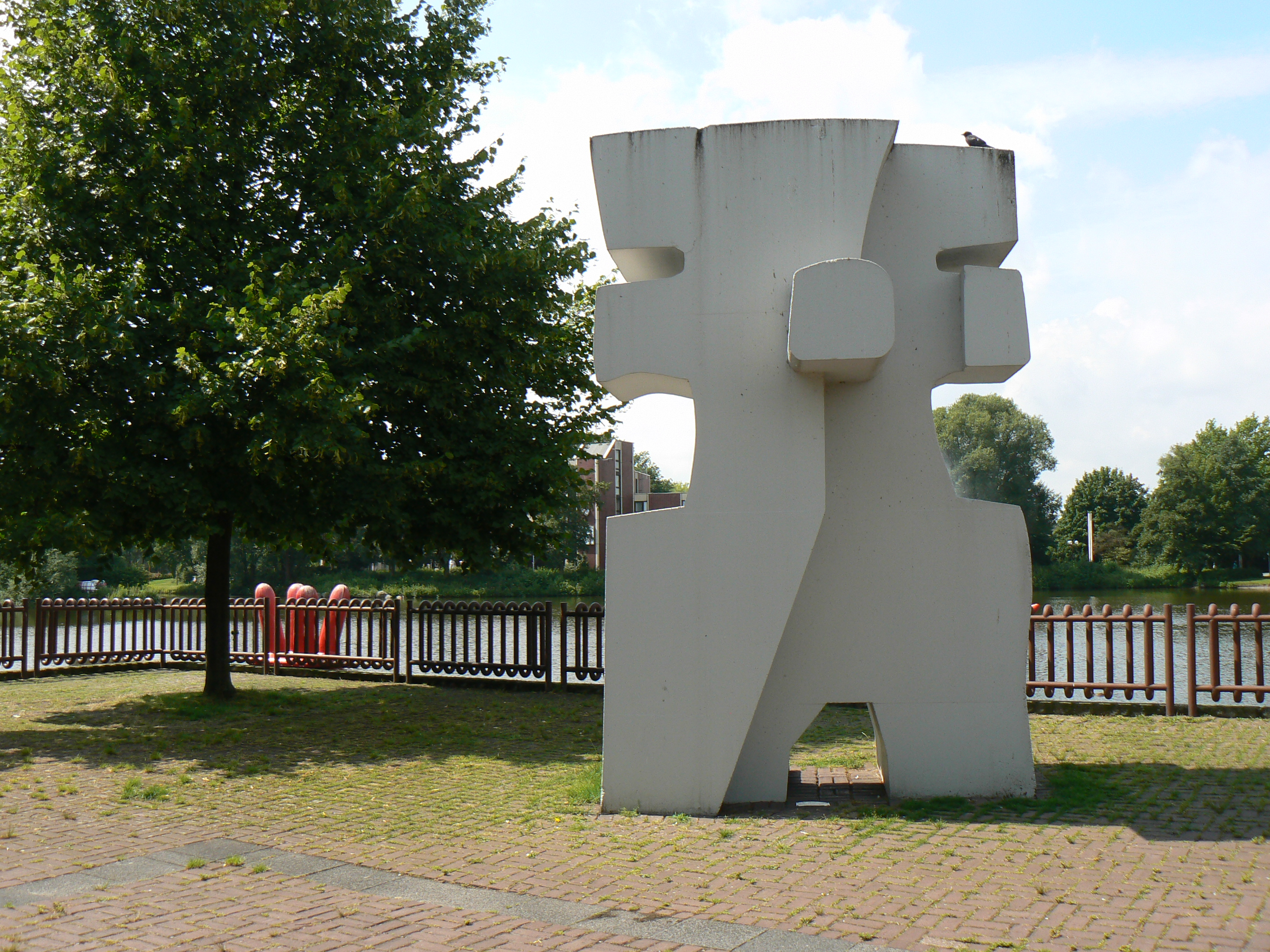 Collection: Skulpturenmuseum Glaskasten Location: City Center Marl/Germany Sculpture: Marlsku(1970-1972) Sculptor: Werner Graeff